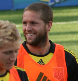 I shot this photo of Ryan MIller on 07/09/08 in Columbus Crew Stadium as the Columbus Crew played Independiente.